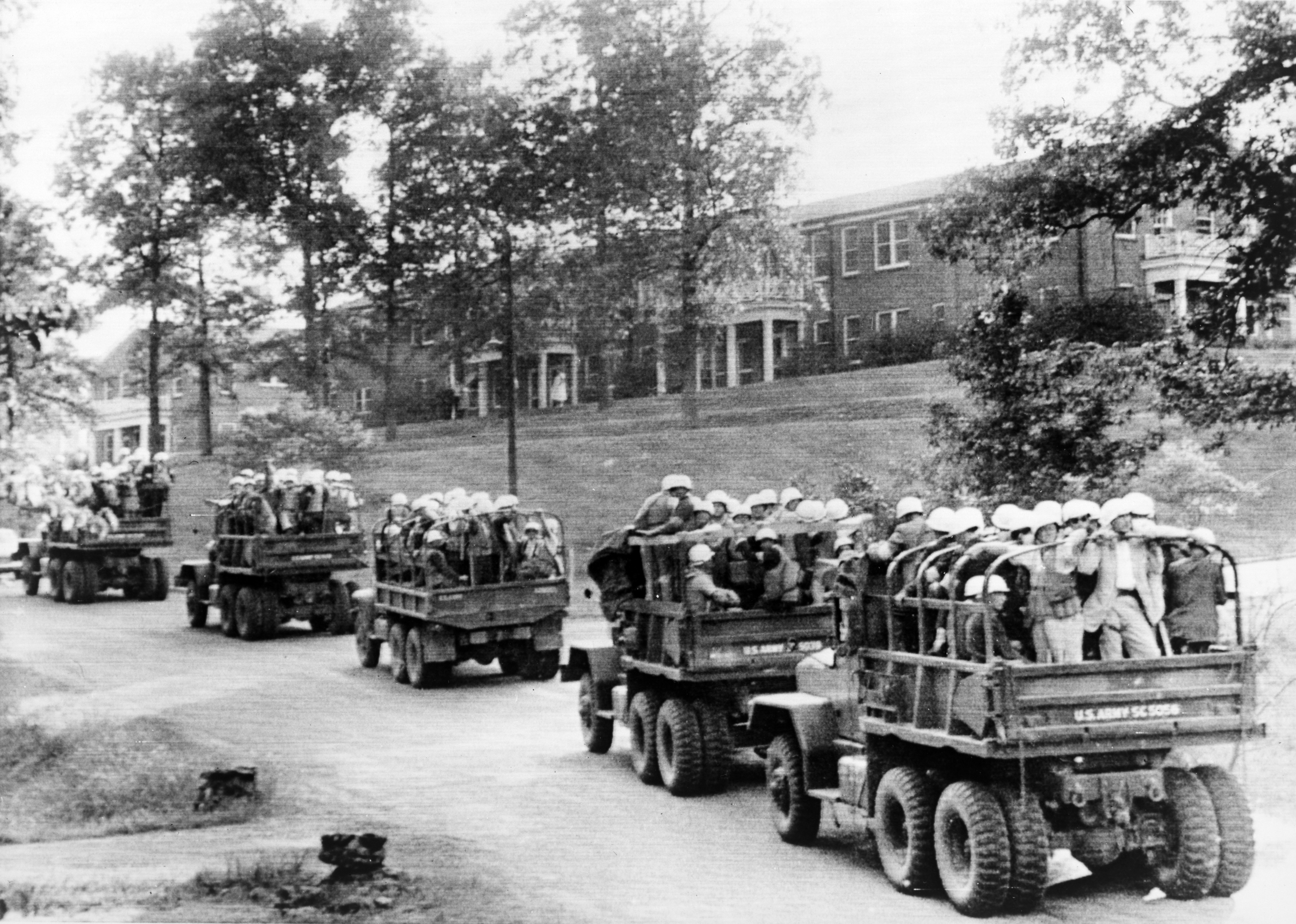 With Ole Miss fraternity houses for a backdrop, US Army trucks loaded with steel-helmeted US Marshals roll across the University of Mississippi campus in the wake of the Ole Miss riot of 1962.